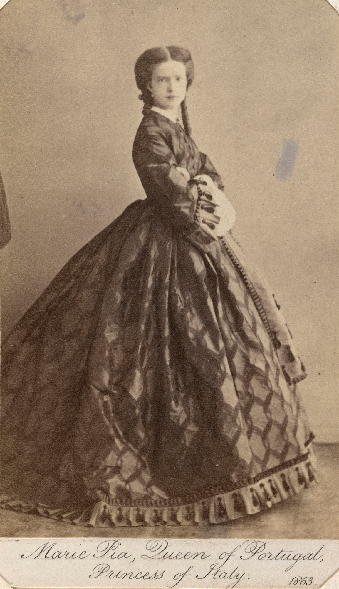 Photograph of Queen Maria Pia of Portugal, Princess of Italy, 1863.